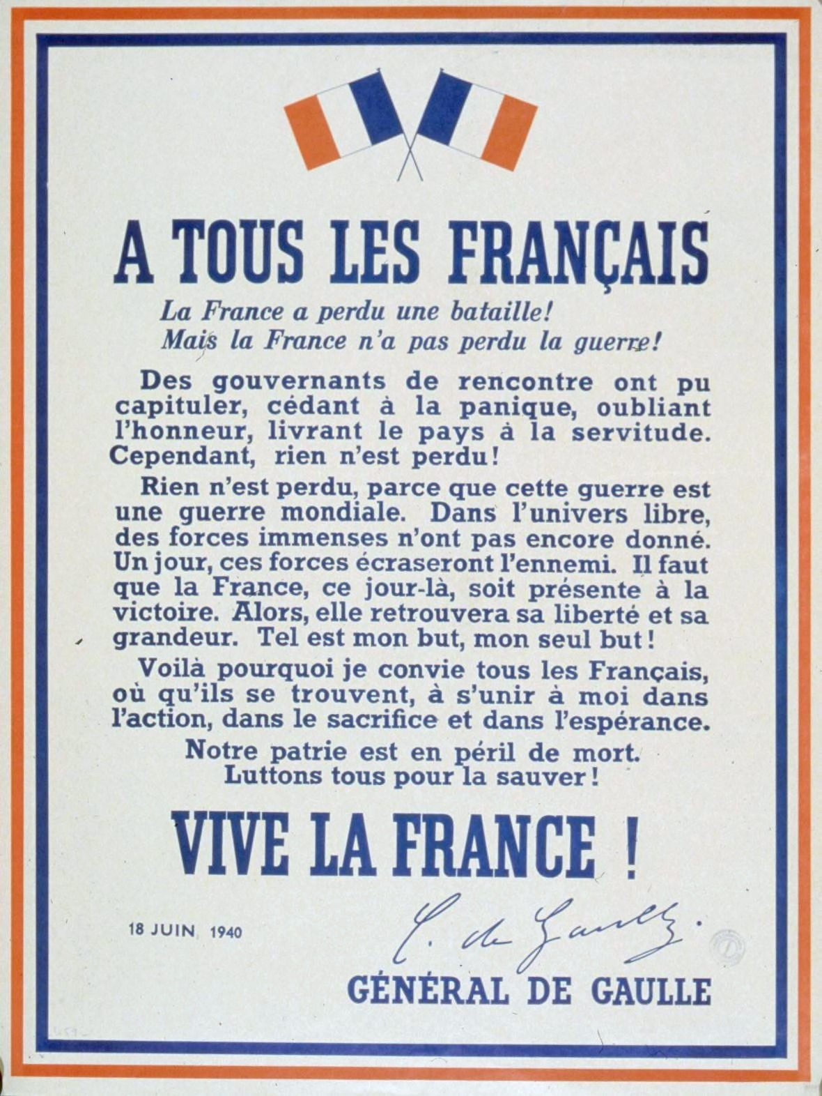 TO ALL FRENCHMEN!France has lost a battle!But France has not lost the war!Some that have happened into governing positions may have capitulated, ceding to panic, forgetting honour, delivering the country to servitude. However, nothing is lost!Nothing is lost, because this war is a world war. In the free universe, immense forces have yet to get into the fray. One day, those forces will crush the enemy. That day, France must be there for victory. Then she will find her liberty and her greatness again. Such is my goal, my only goal!This is why I invite all Frenchmen, wherever they may be, to join me in action, in sacrifice, and in hope.Our motherland is in lethal danger. Let us all fight to save her!LONG LIVE FRANCE!General de GaulleHead-Quarters,Carlton Gardens 4London, S.W.1.Translation of the original radio speech: Appeal_of_June_18#Translation_of_the_speech